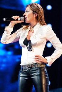 Italian singer Sabrina Salerno (Sabrina), October 30, 2010 in Moscow